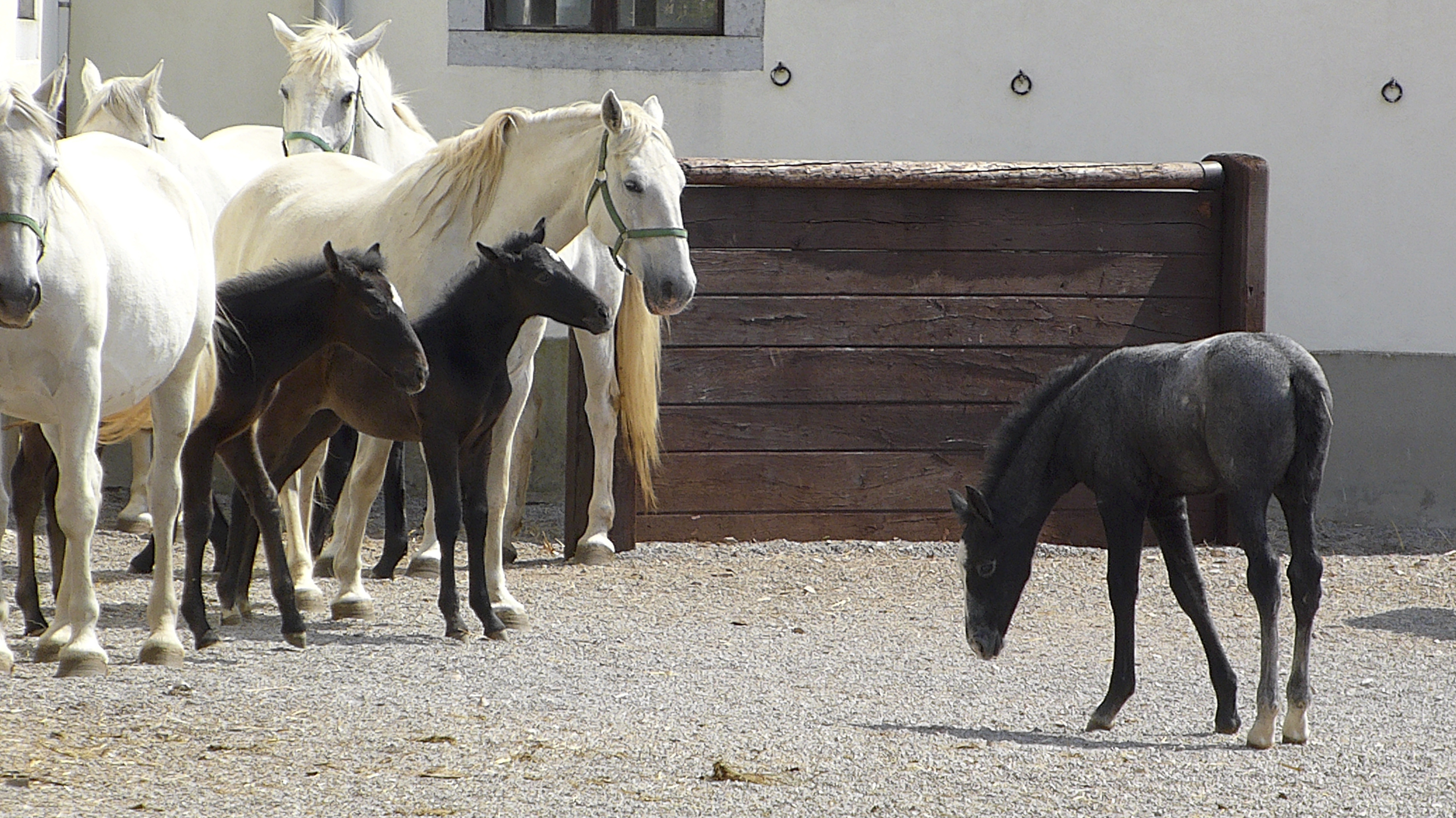 Lipizzaner foals